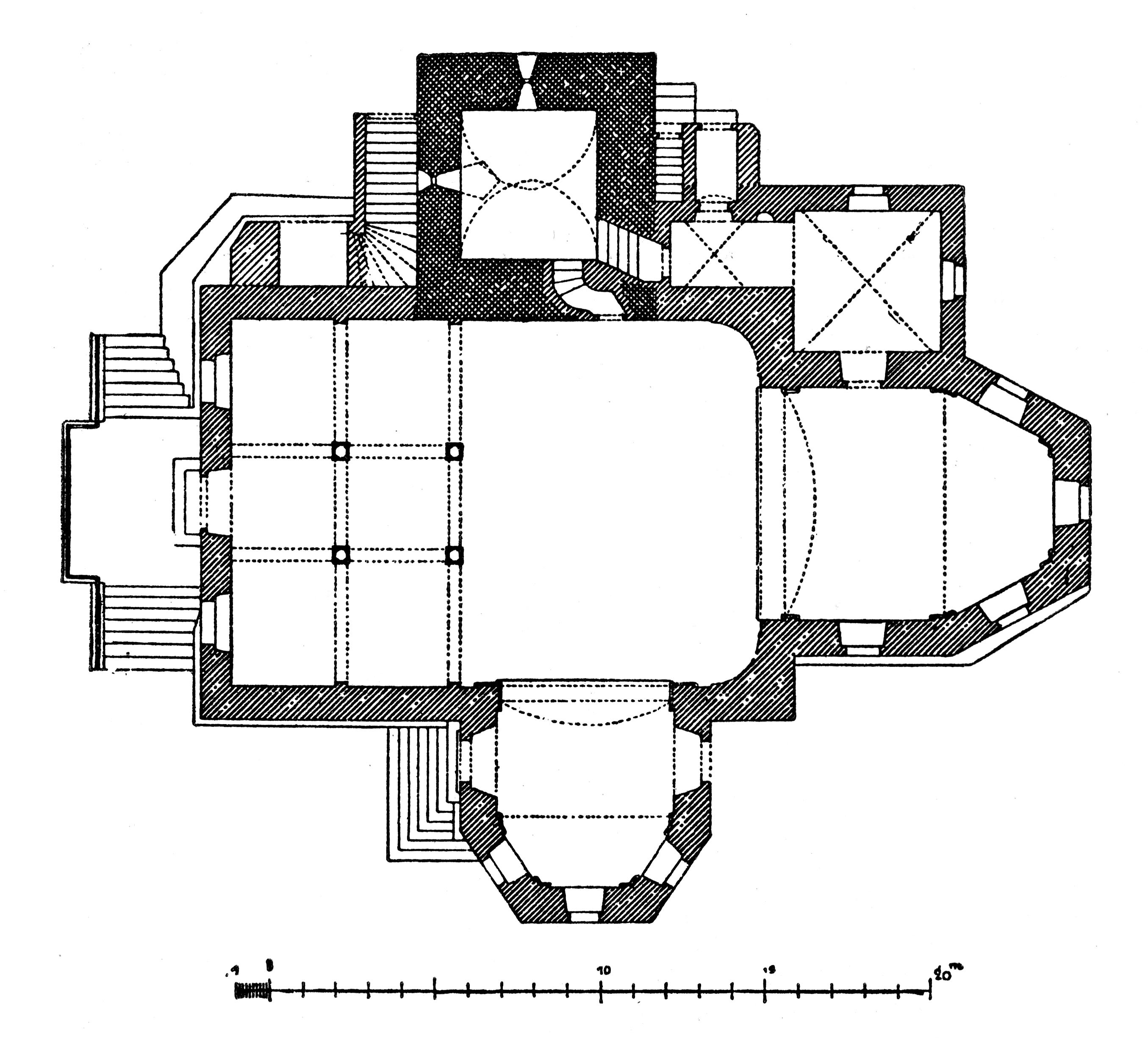 Church of Saint Catherine, Volary, floor plan